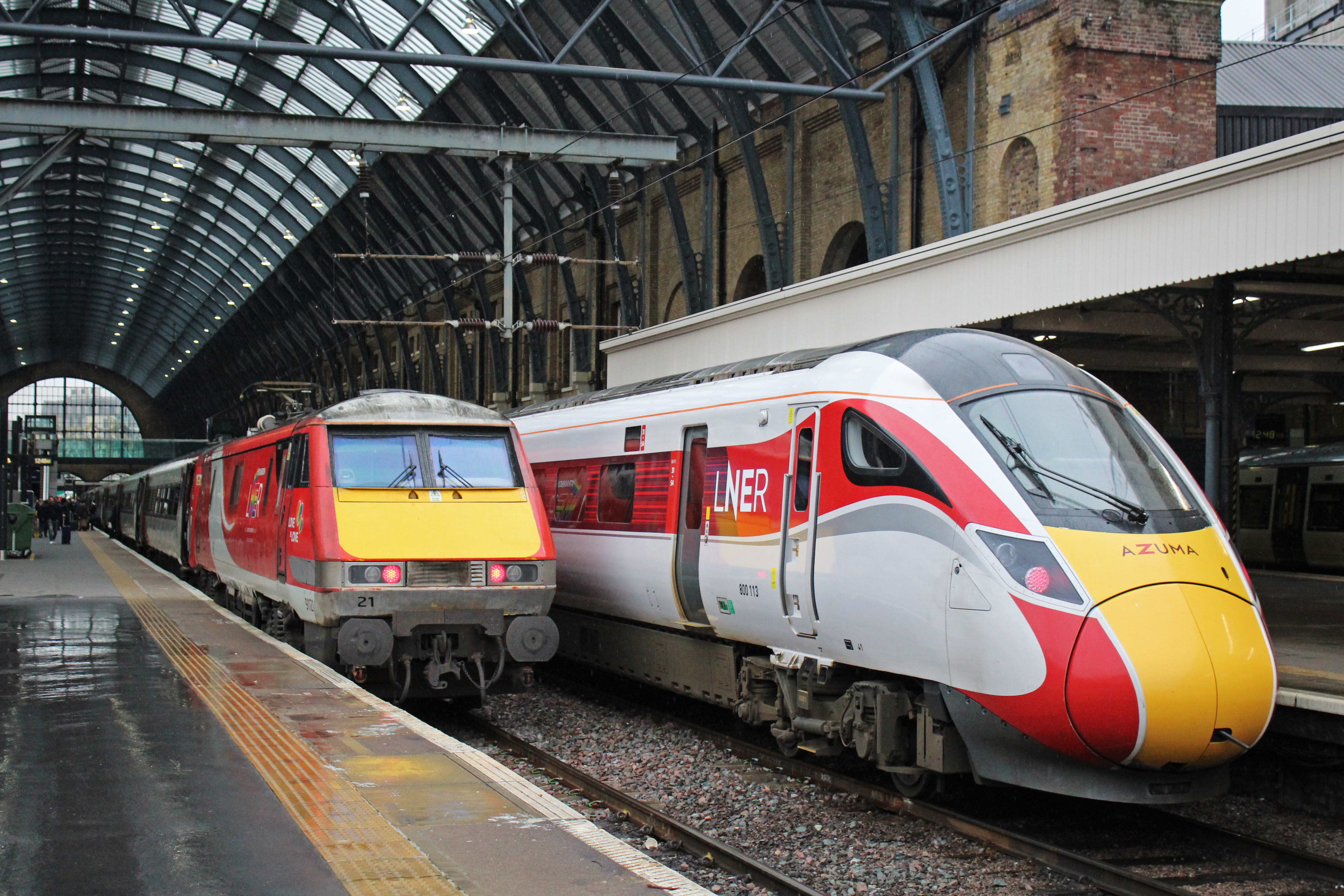 LNER's IC225 91121 and Azuma 800113 are seen at London Kings Cross awaiting its next services.